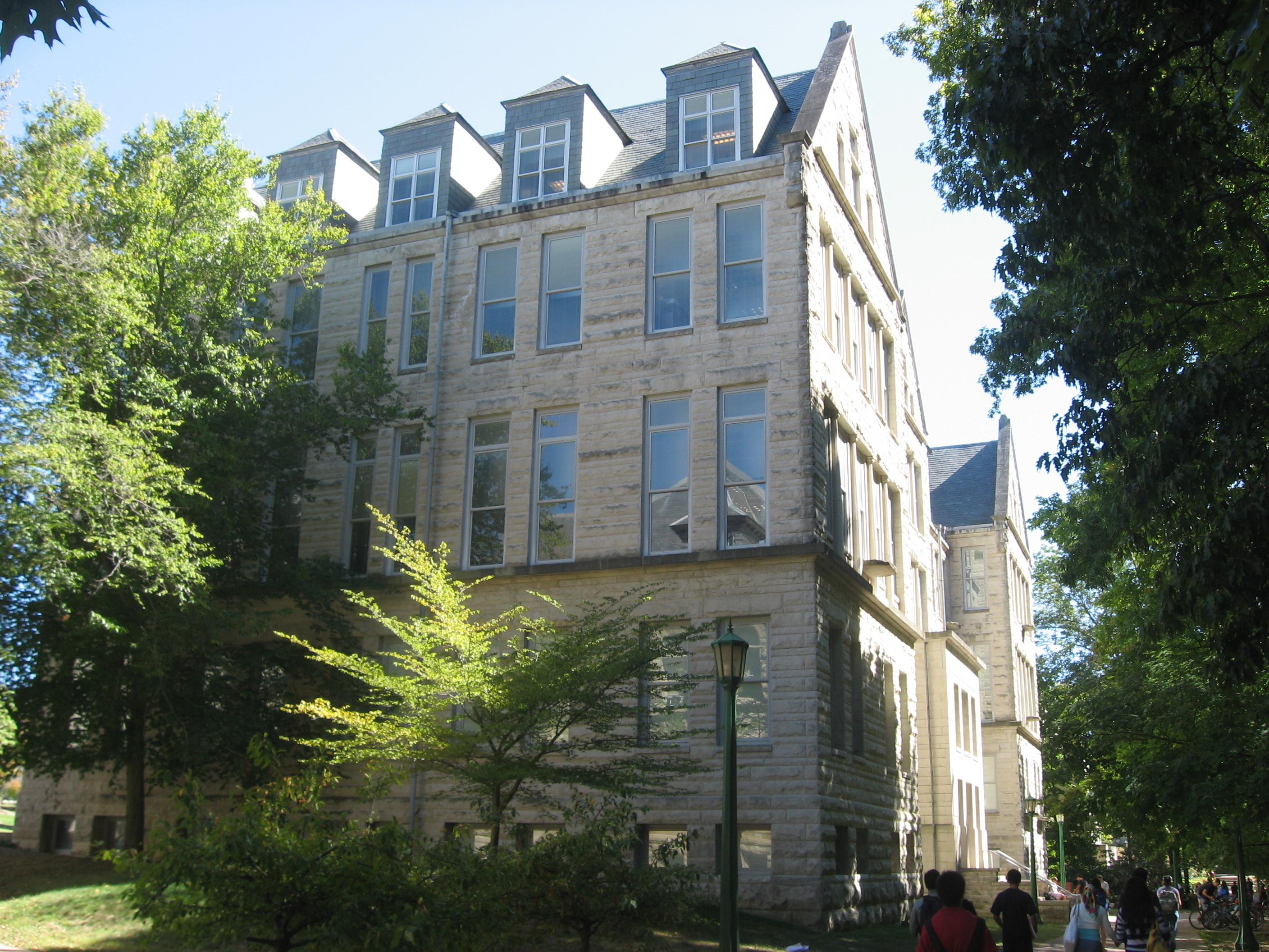 Front and northern end of Lindley Hall on the campus of Indiana University in Bloomington, Indiana, United States. Built in 1902, it is part of The Old Crescent, a group of the oldest buildings on the university's campus that is listed on the National Register of Historic Places.